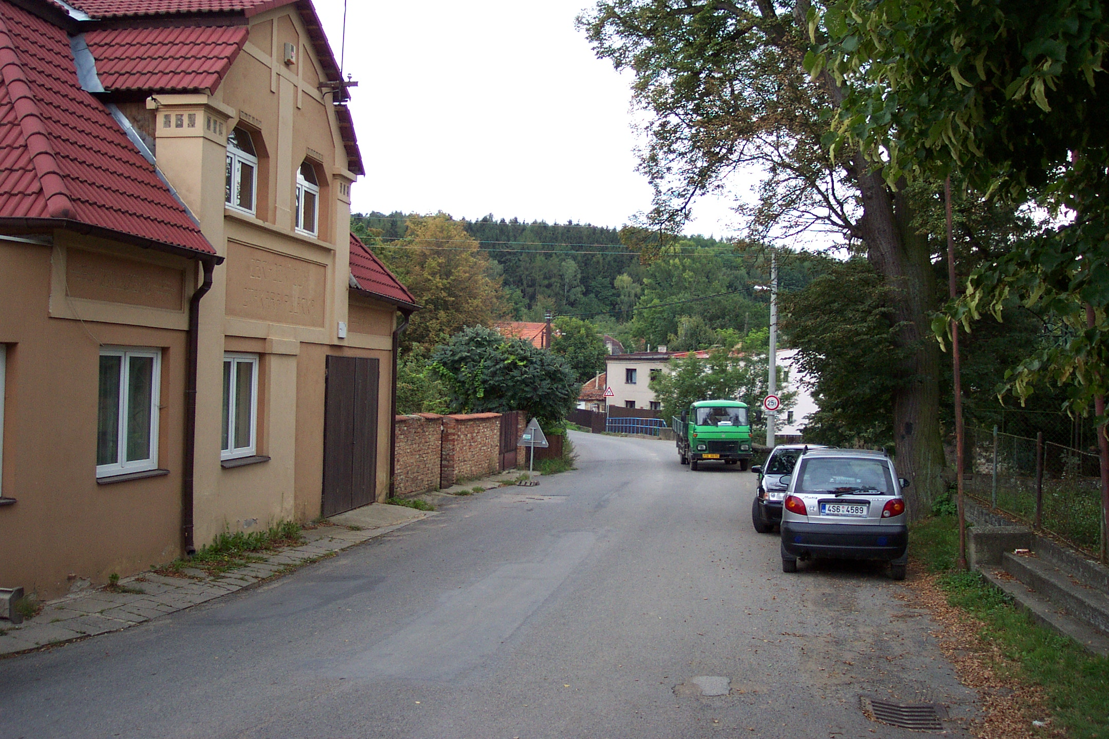 Buildings and nature in the Statenice town, near Prague